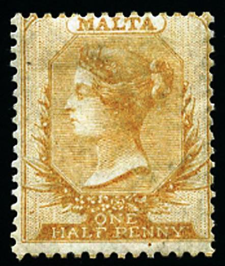 The first stamp issued in 1860 Malta. Malti: L-ewwel bolla ta' Malta ħarġet fl-1860.